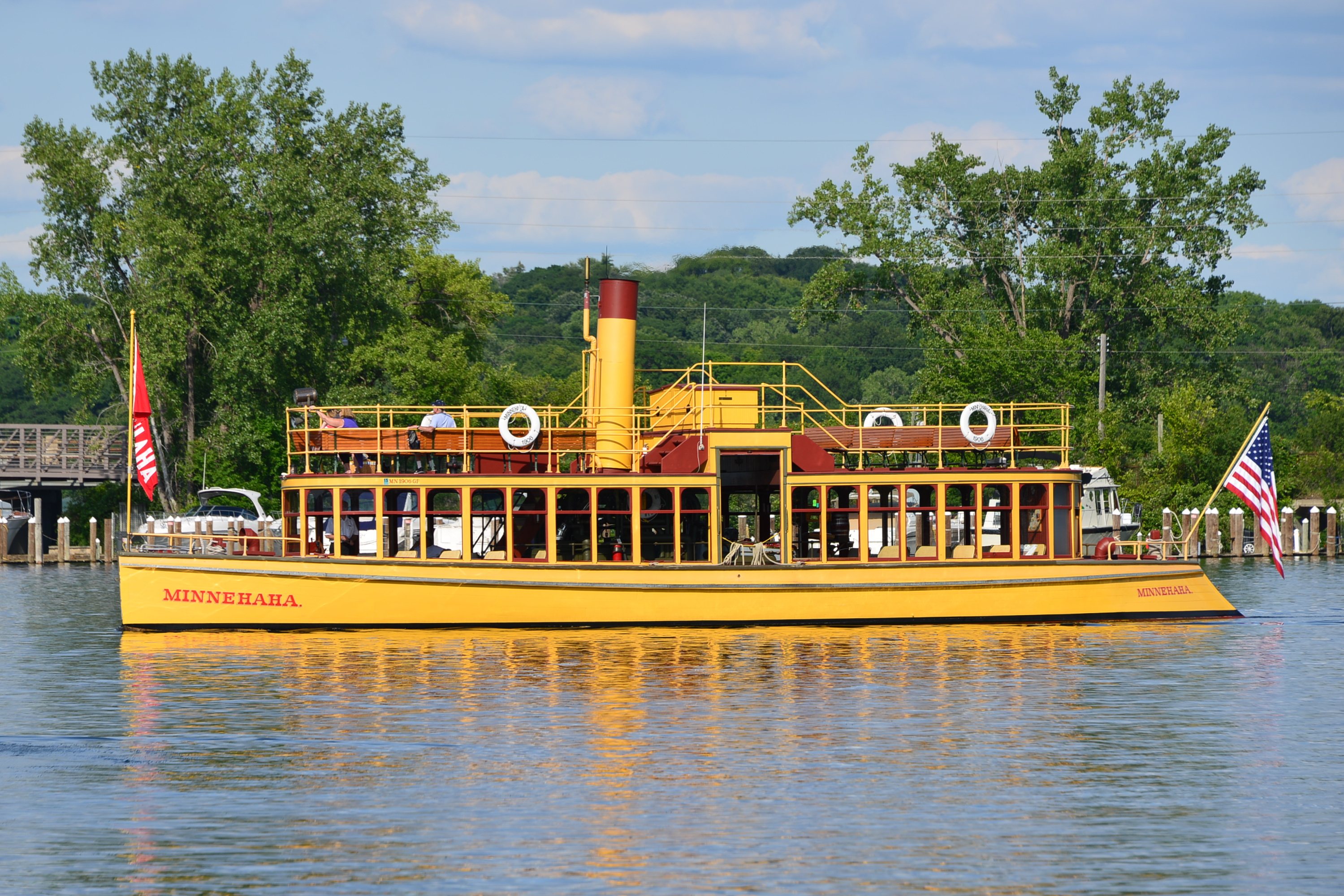 The former Twin City Rapid Transit "streetcar steamboat," Minnehaha, docking at Excelsior.